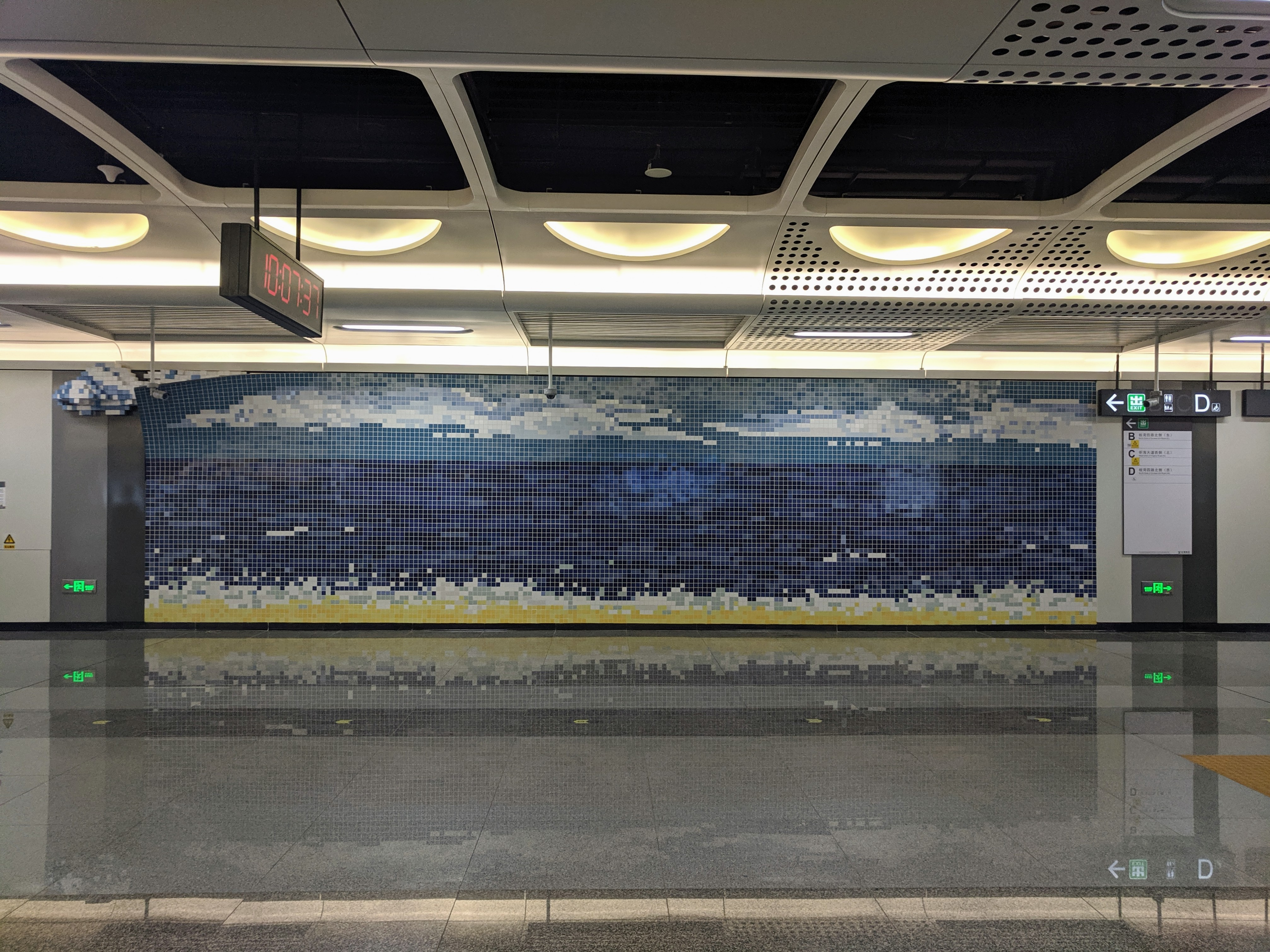 SZMC Line5 Guiwan Station Artwork Another Space